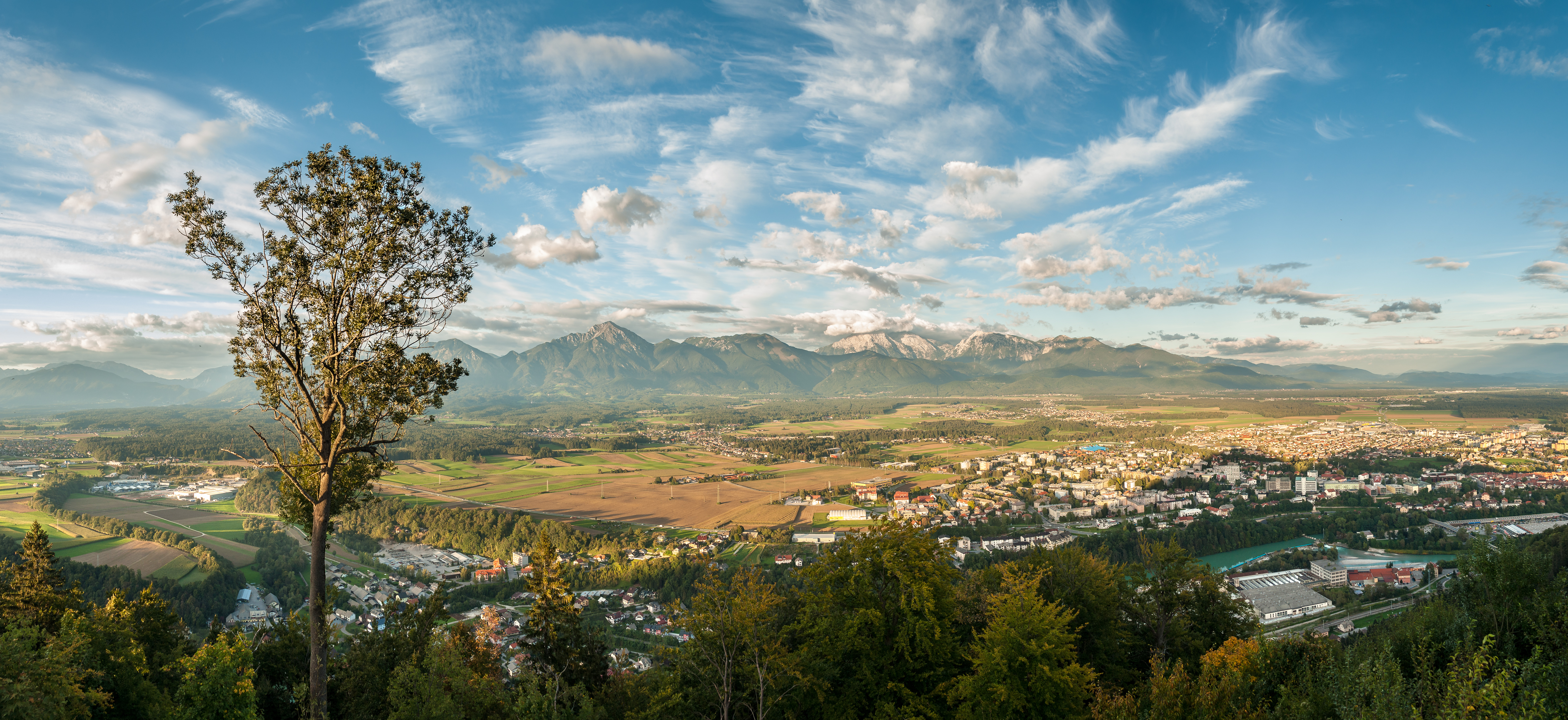 Panoramic view of Kranj and Kamnik-Savinja alps from Šmarjetna goraSlovenščina: Pogled na Kranj in Kamniško-Savinjske alpe s Šmarjetne gore